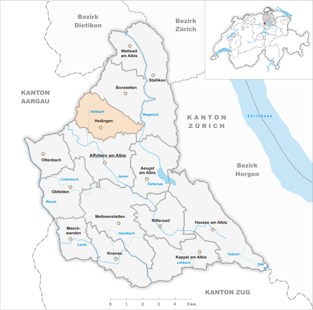 Municipality Hedingen